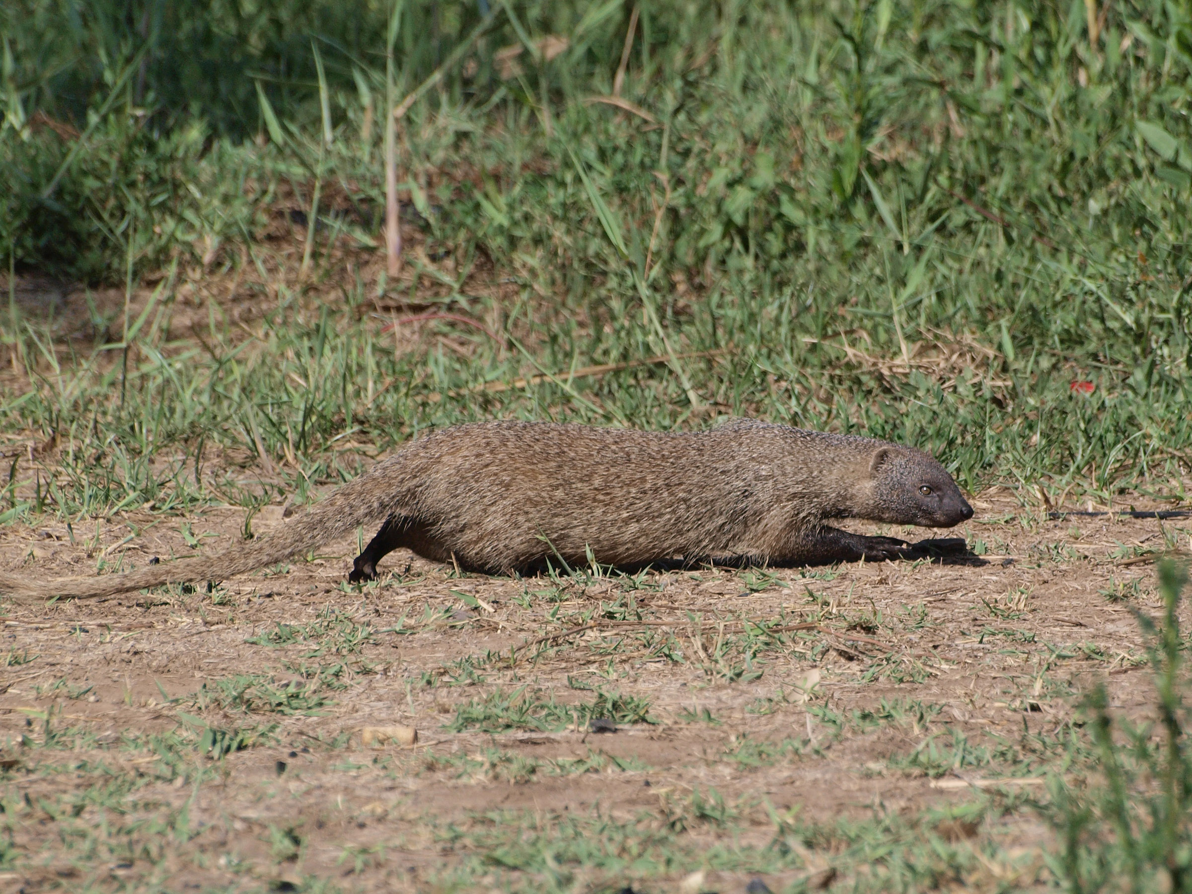 Herpestes ichneumon - Egyptian Mongoose